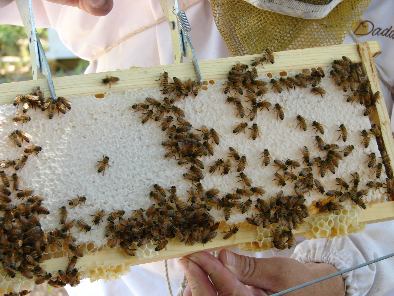 Visit to a bee colony in West Virginia